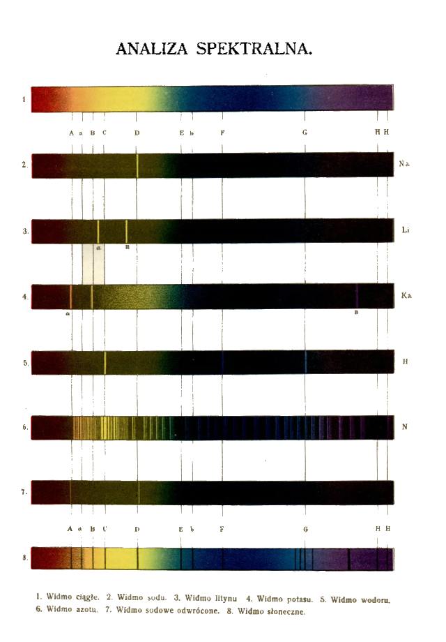 Spectral analysis